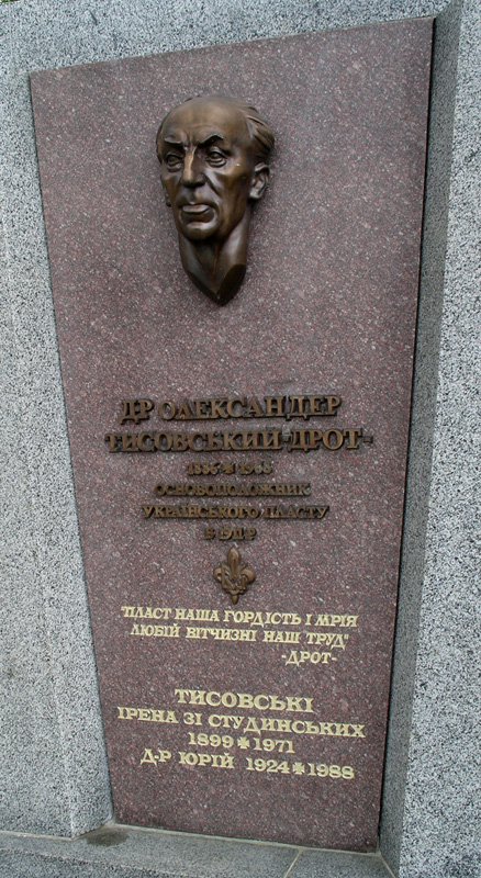 Tomb of Oleksander Tysovskyy. Lychakivs'kyj cemetery in Lviv photo by Oleh Petriv. 2006